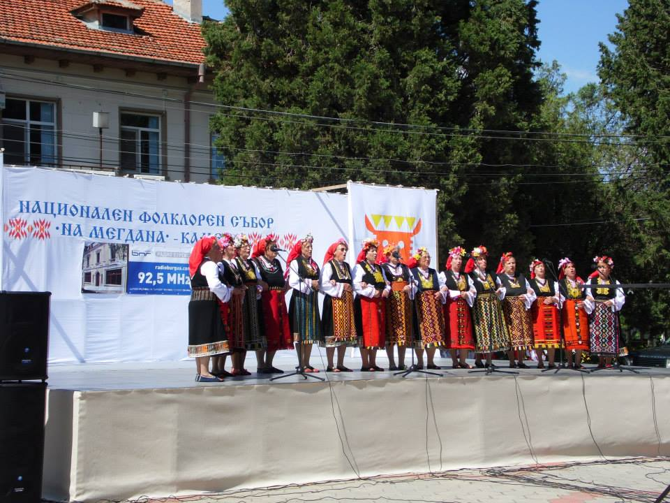 Групата за автентичен фолклор при НЧ "Просвета-1927" гр.Камено на участие в Национален фолклорен събор "На мегдана" град Камено